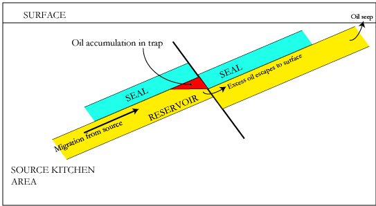 Schematic of an oil reservoir in a structural trap